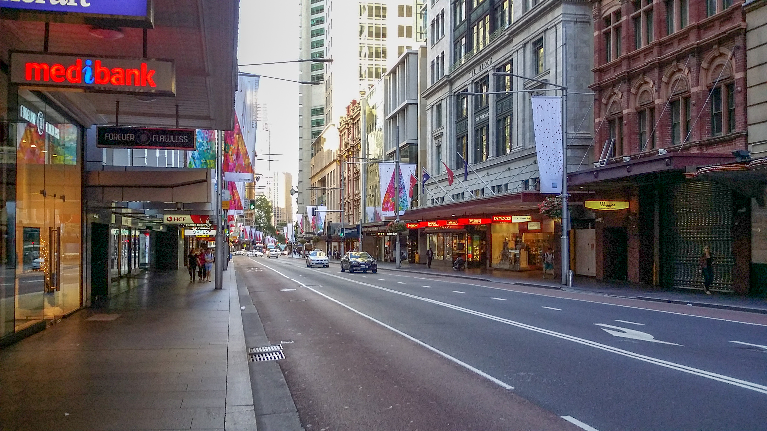 Desolated George St in Sydney CBD during Sydney Hostage Crisis